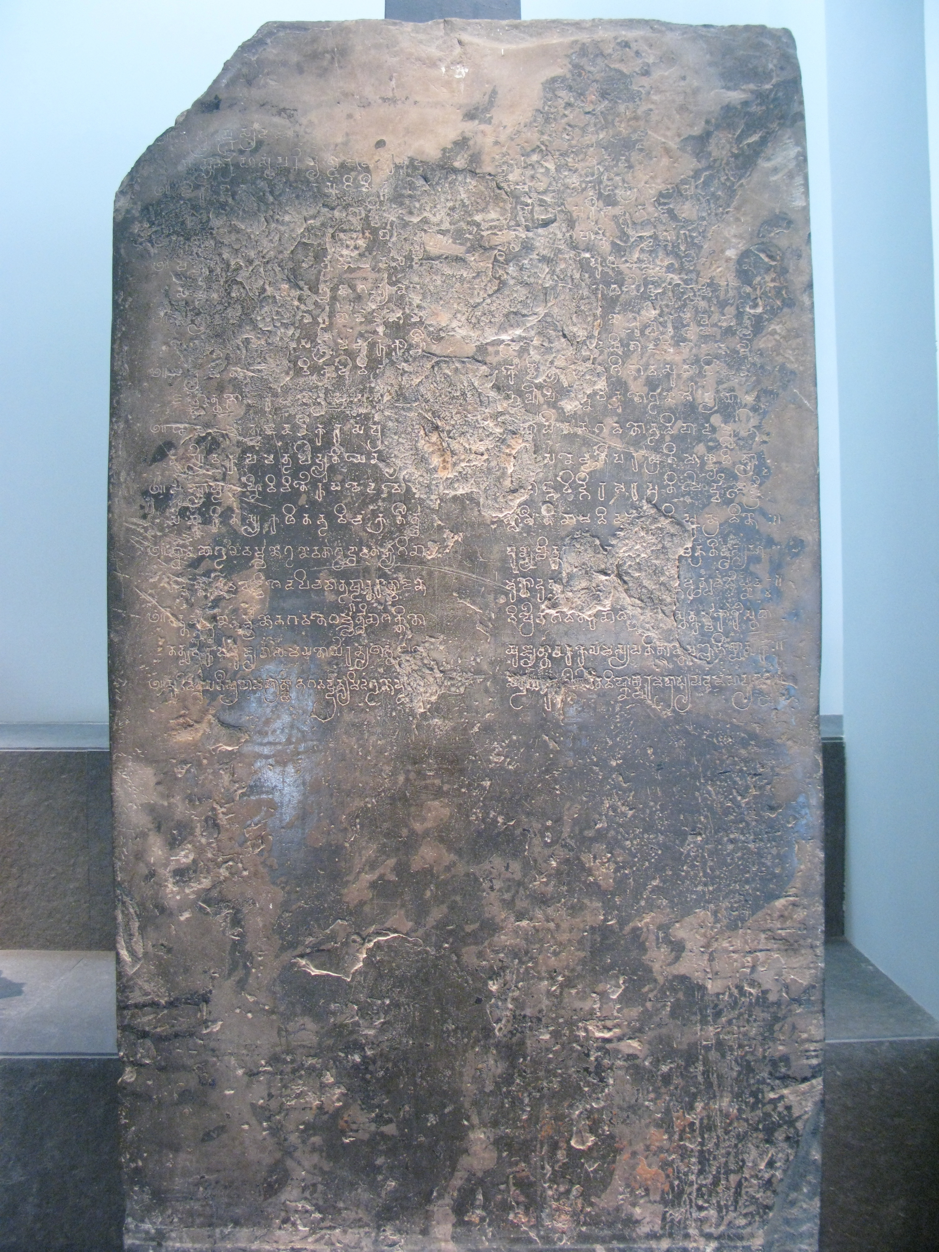 This stele is one of the few documents dating back to the Kingdom of Funan. The text mentions the consecration of a holy footprint of the god Visnu by prince Gunavarman as well as drainage works.